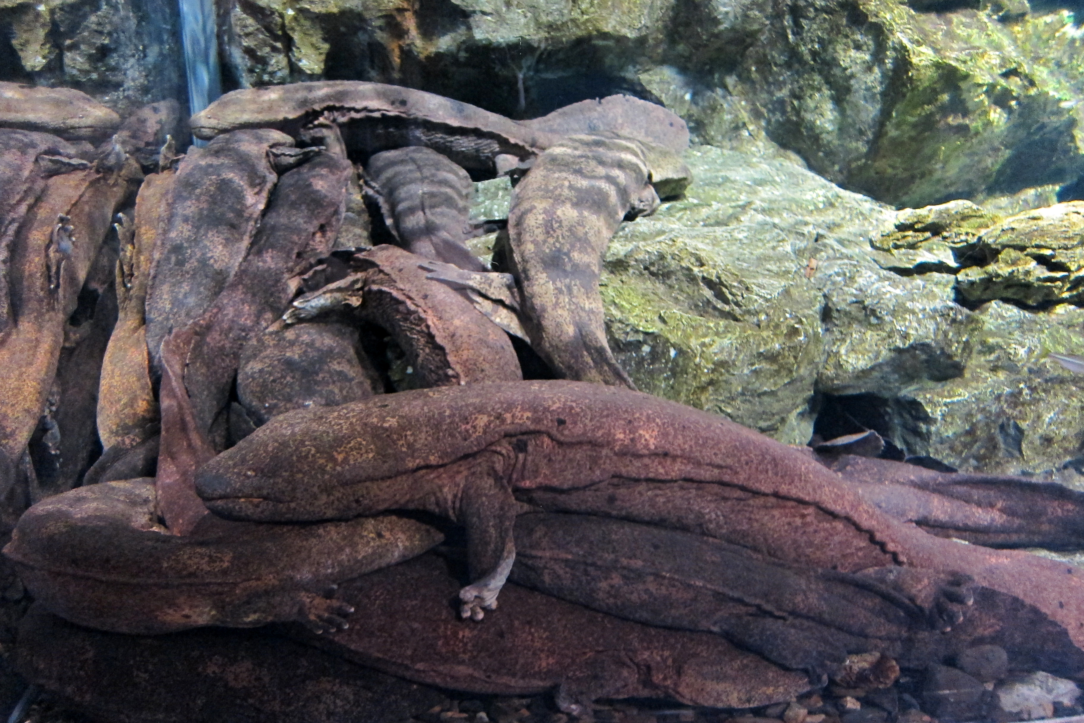 Kyoto Aquarium (京都水族館), Kyoto, Kyoto prefecture, Japan